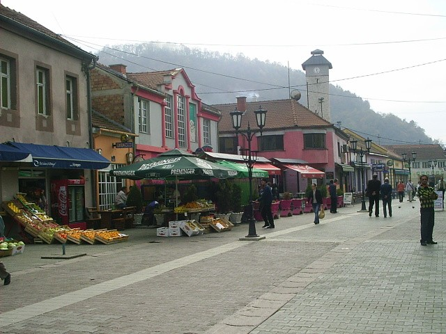 Town of Gračanica in Bosnia and Herzegovina